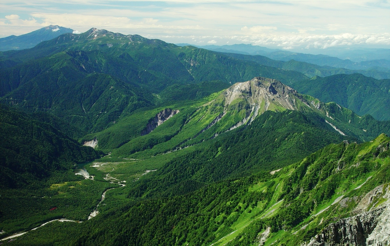 Mount Norikura and Mount Yari from Mount Hotaka in Hida Mountains, Japan.